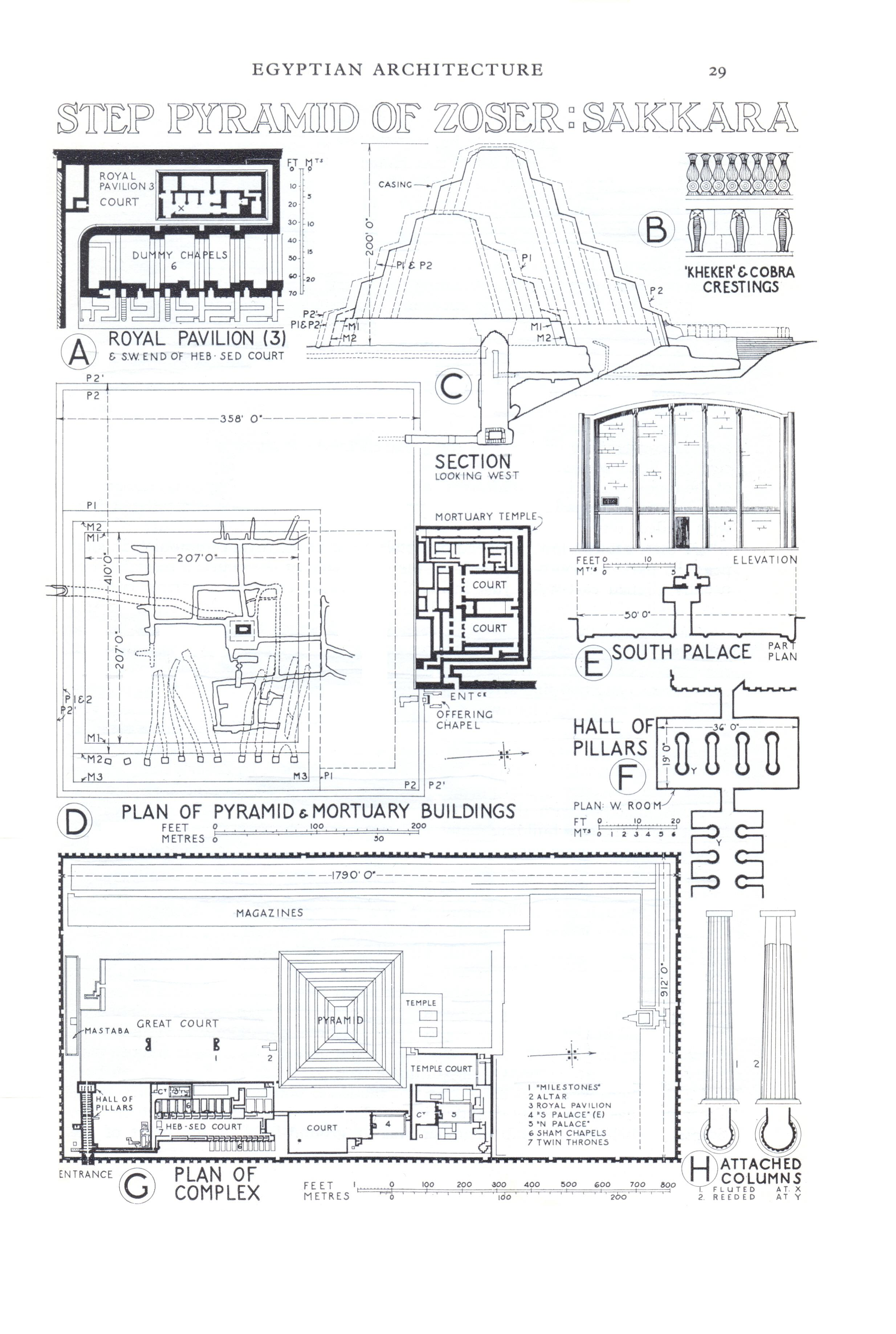 Step Pyramid of Zoser-sakkara , Egyptian Architecture, History of Architecture (Fletcher pg 29)